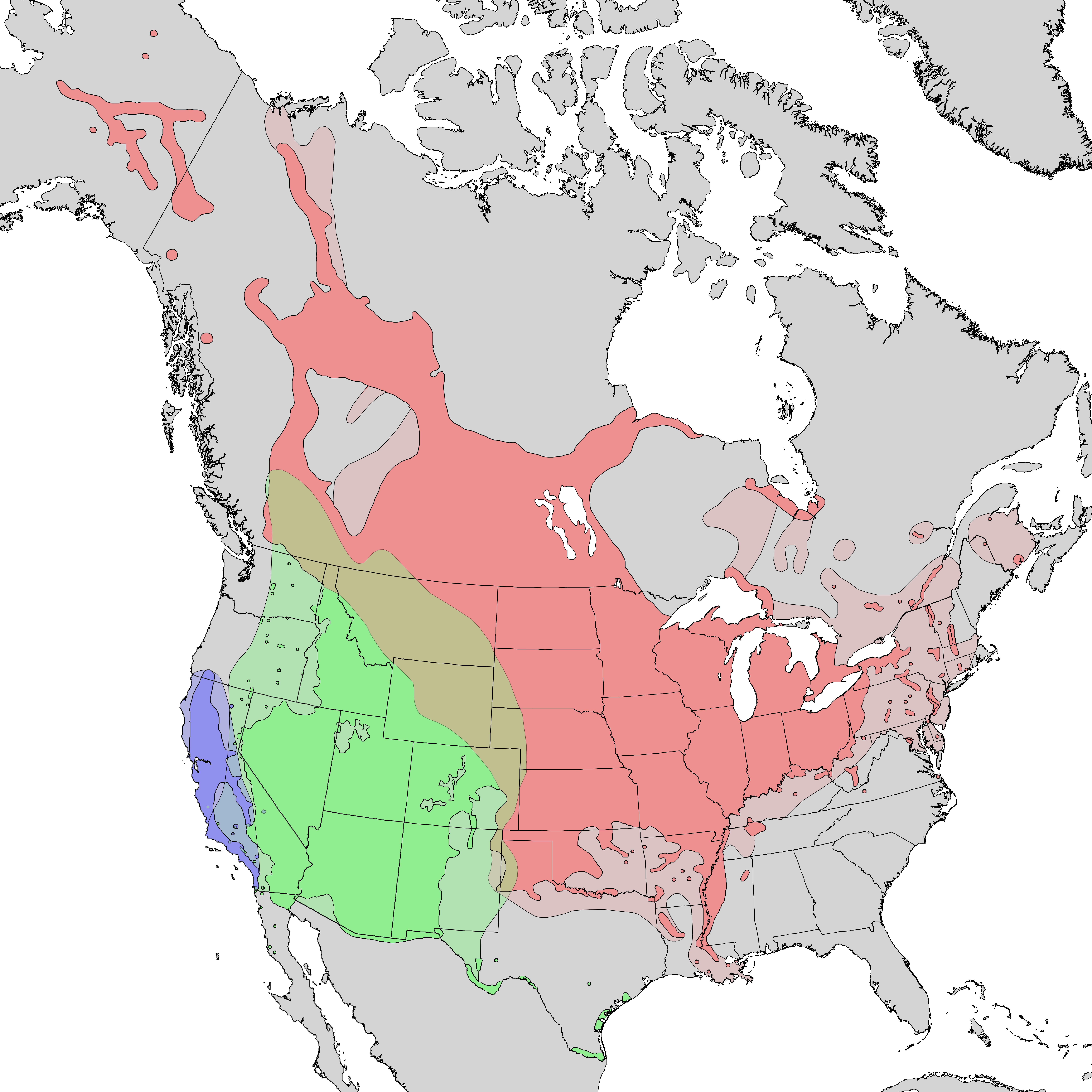 Natural distribution map for Salix exigua var. exigua (coyote willow, in green), Salix exigua var. hindsiana (Hinds willow, in blue), and Salix interior (syn. Salix exigua var. interior) in red. Shaded (lighter colored) regions are from George W. Argus (2007), "Salix (Salicaceae) Distribution Maps and a Synopsis of Their Classification in North America, North of Mexico." Harvard Papers in Botany 12(2):335-368.